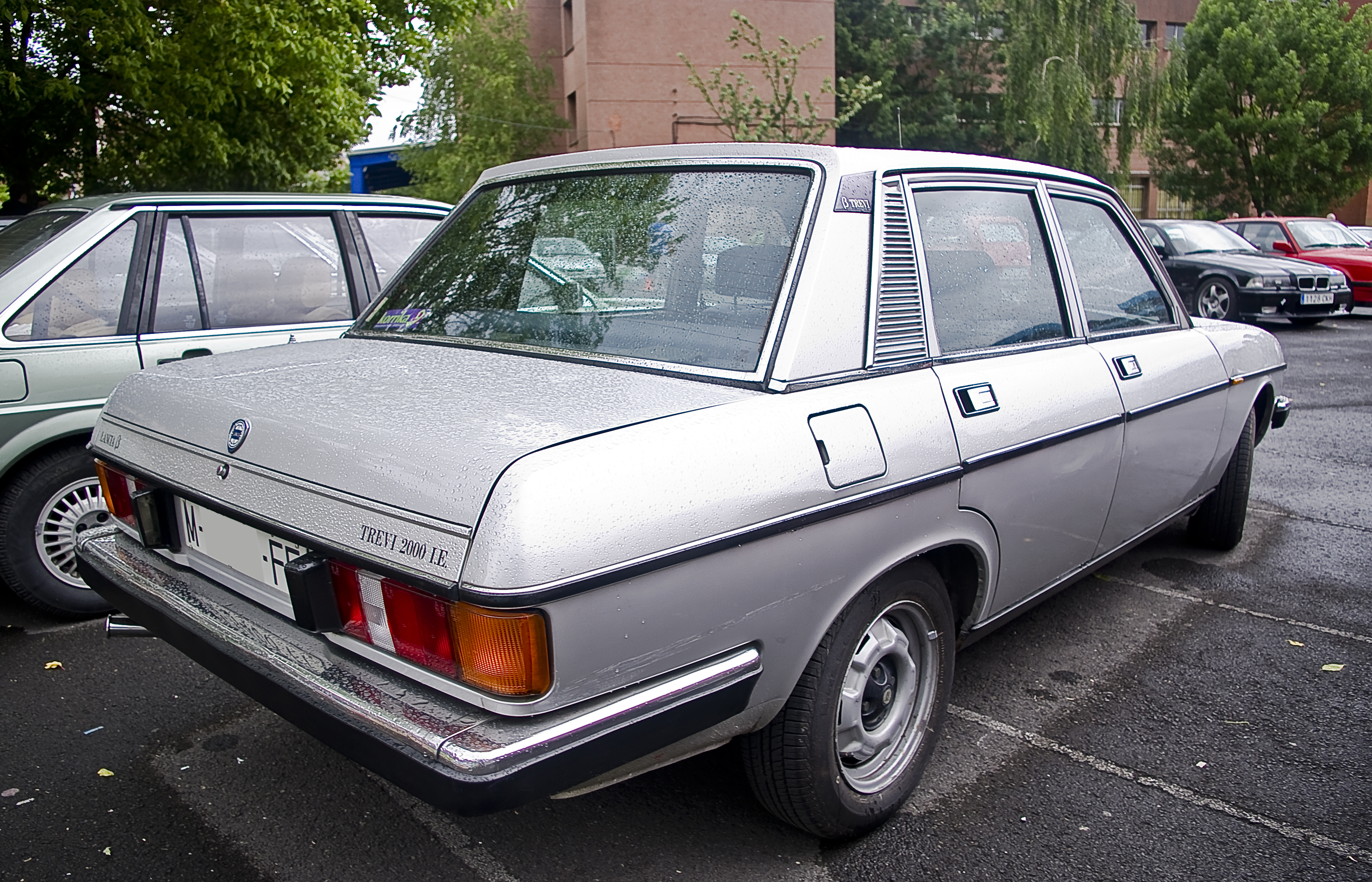 This was such a great surprise, had never seen one in person and I don't think many of them were sold in this country so it was great surprise.